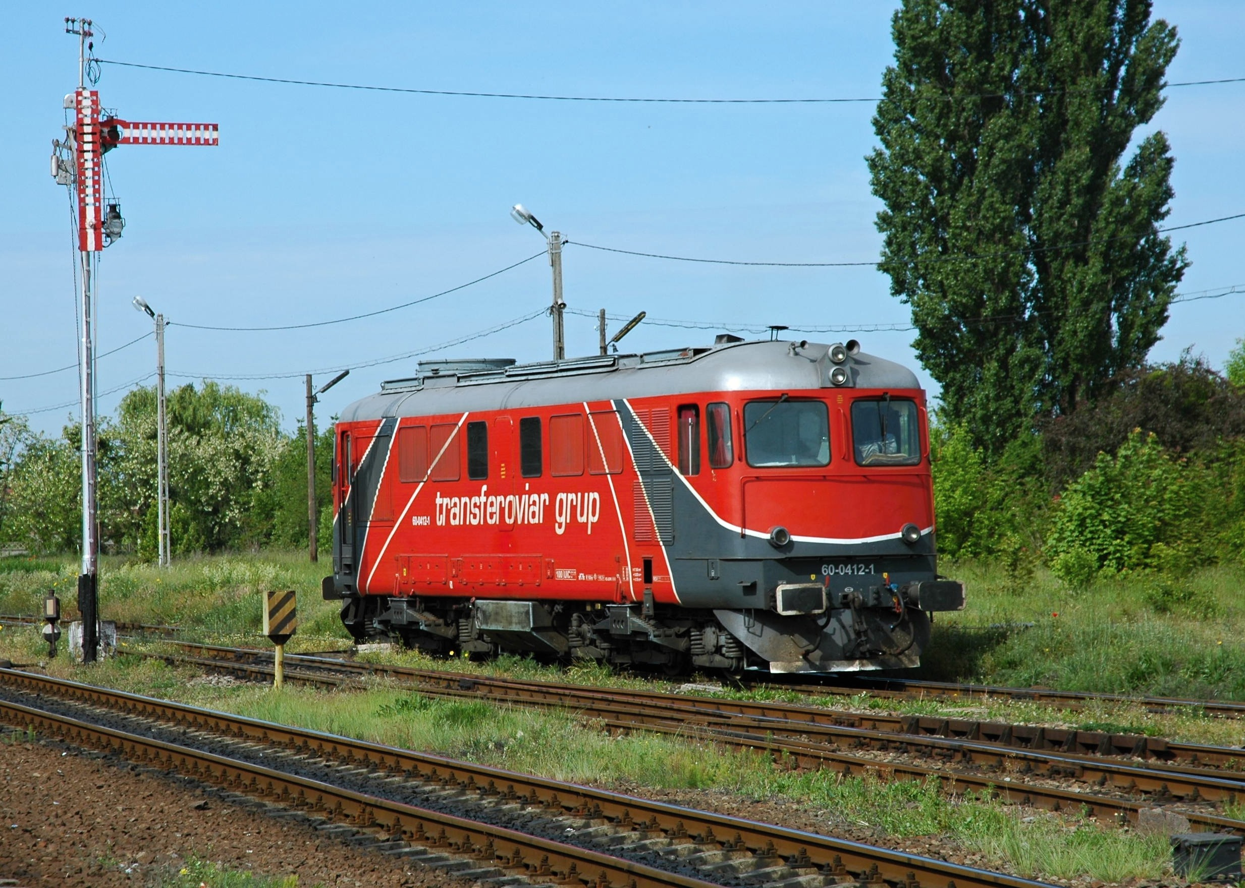 60-0412 of Transferoviar Grup; Valea lui Mihai station, Romania